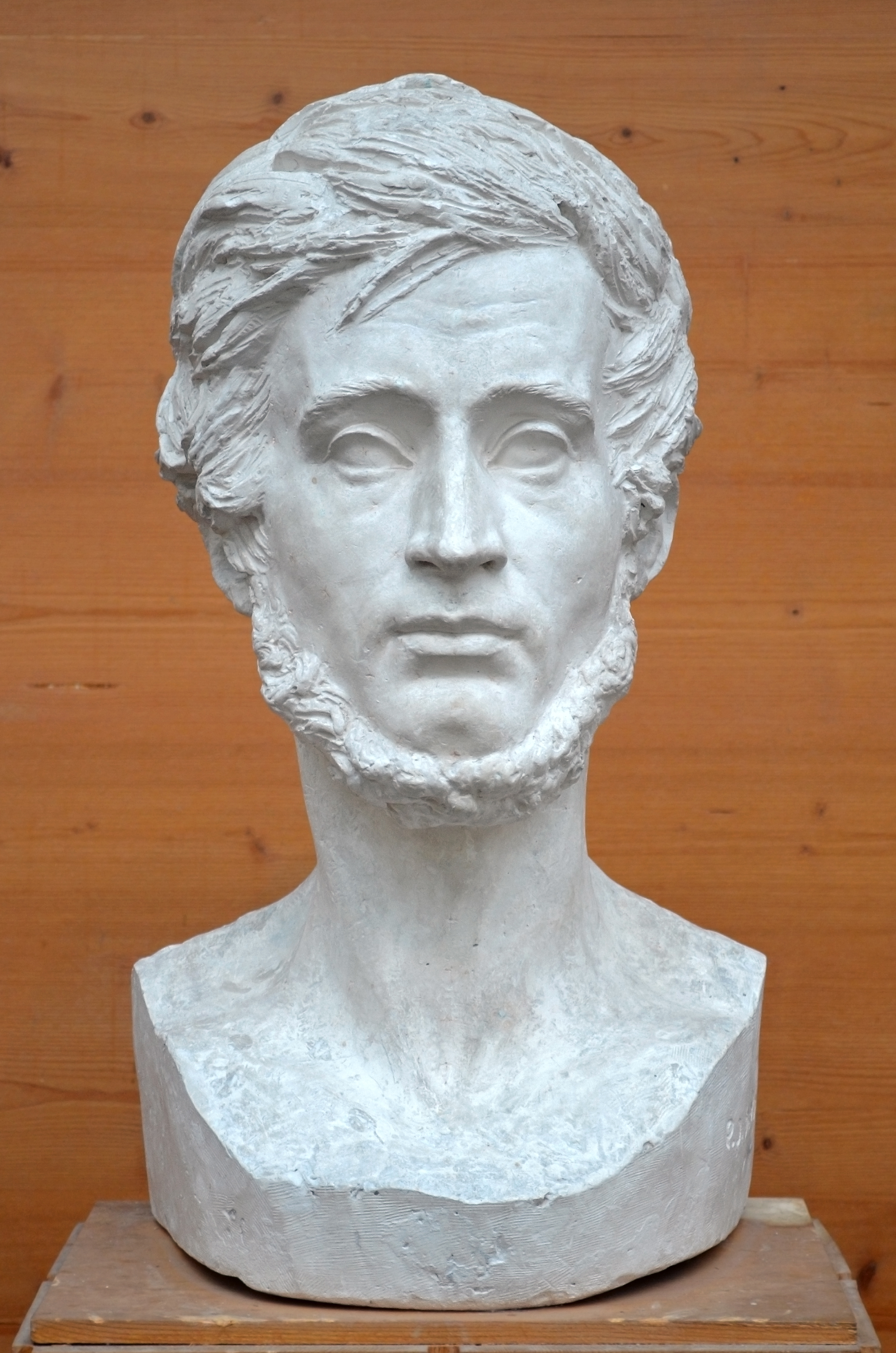 Bust of Adam Mickiewicz by french sculptor David d'Angers (1835). Exhibited in David d'Angers gallery, Angers, France